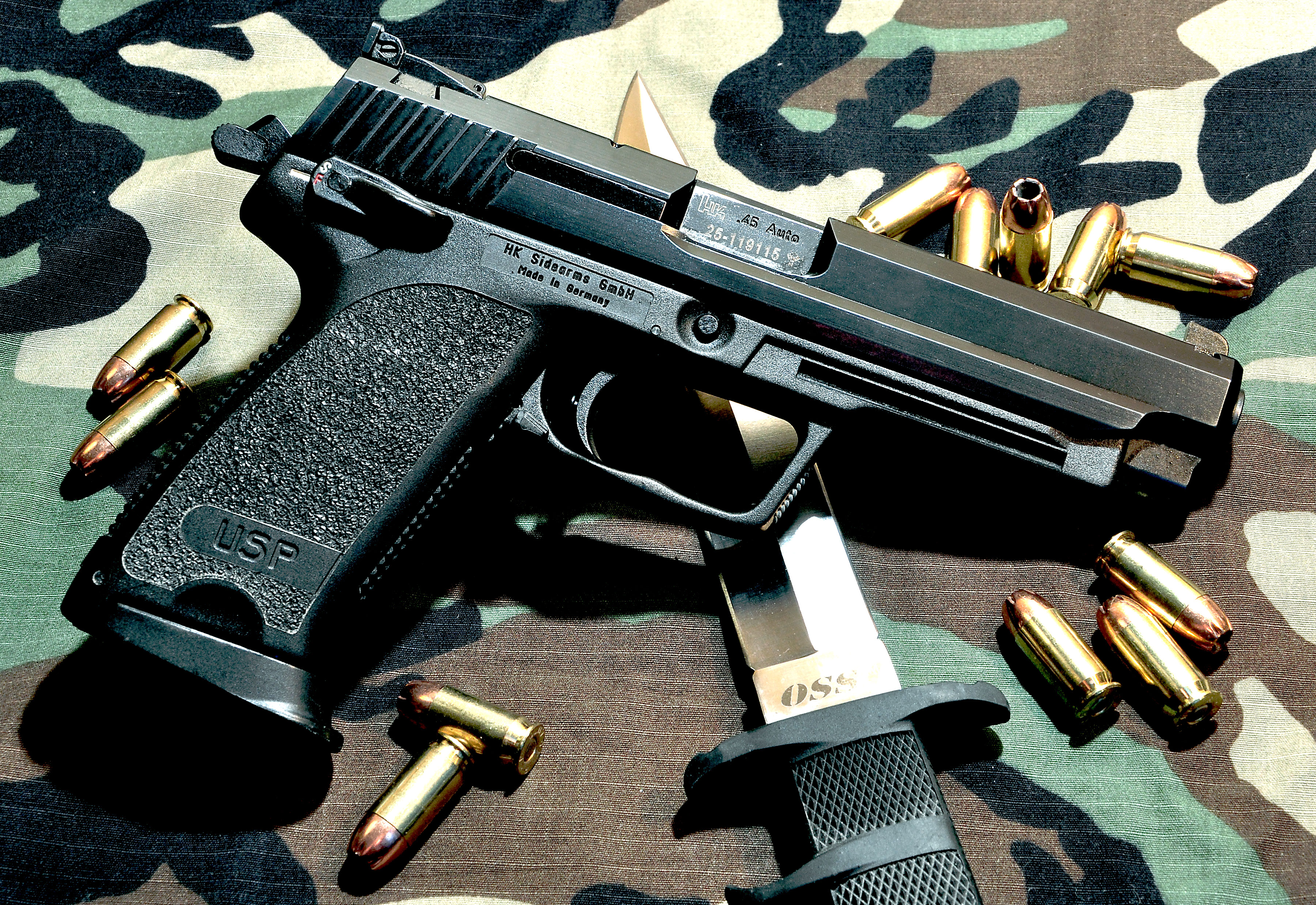 H&K USP Expert .45 and Cold Steel OSS knife.